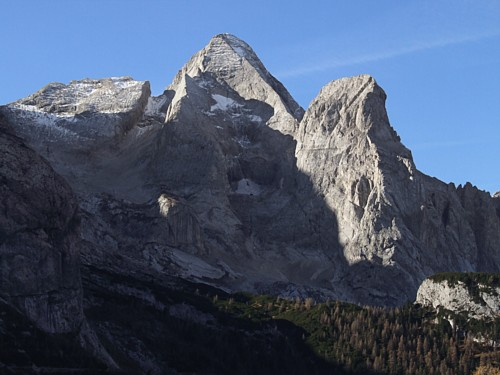 Gran Vernel (3210 m) Picture taken and edited by user Idefix October 31, 2006